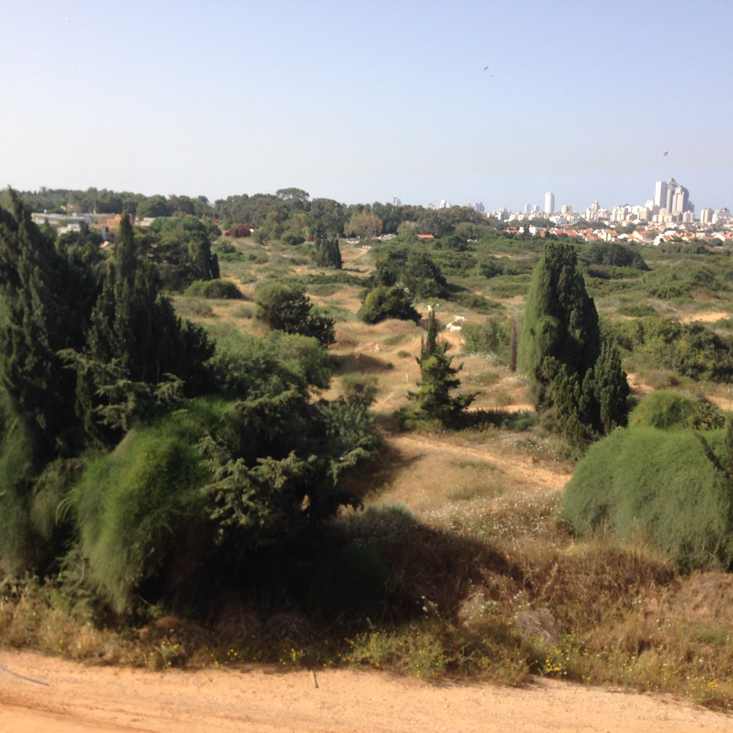 National park of Israel in avichail, near natanya